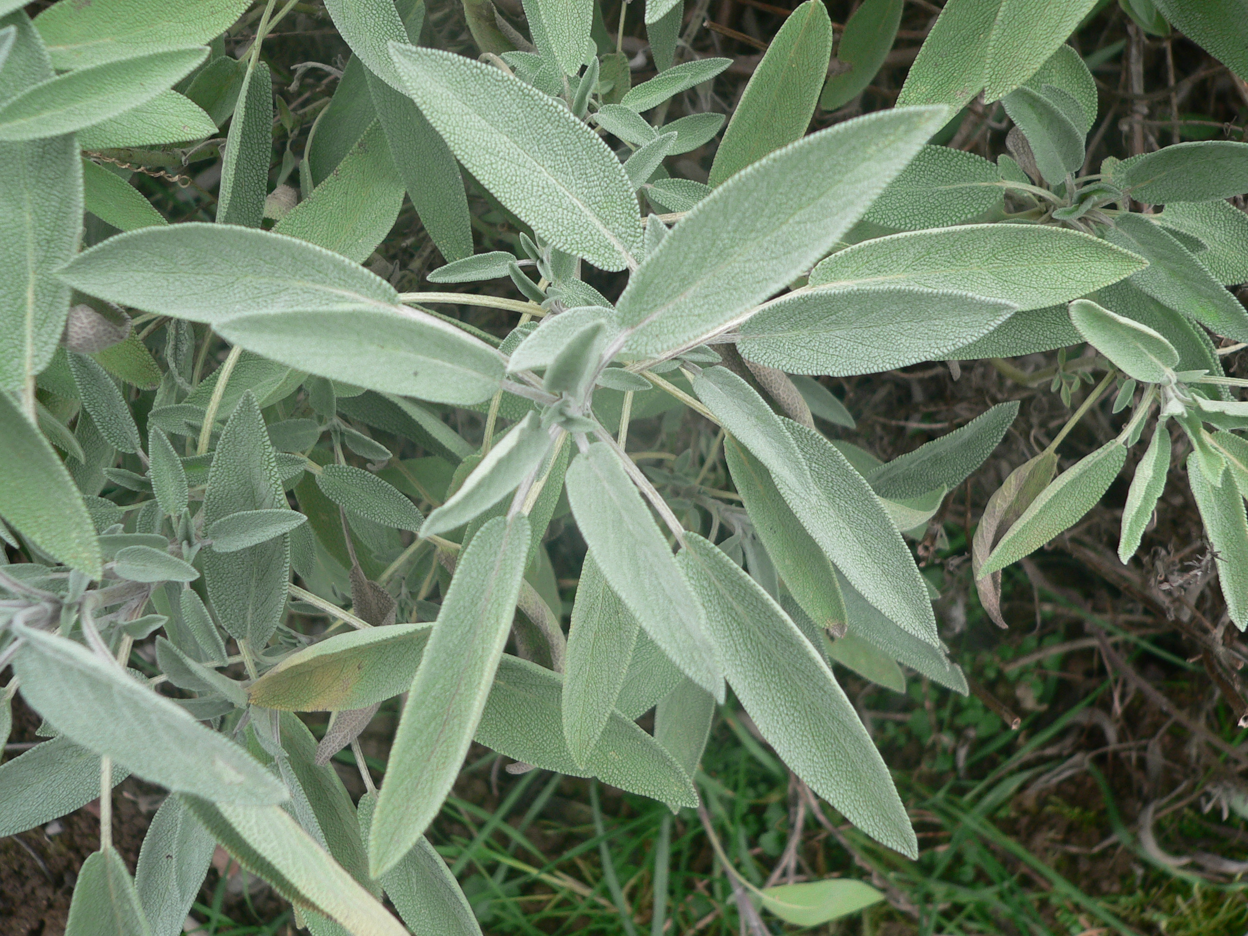 Common sage